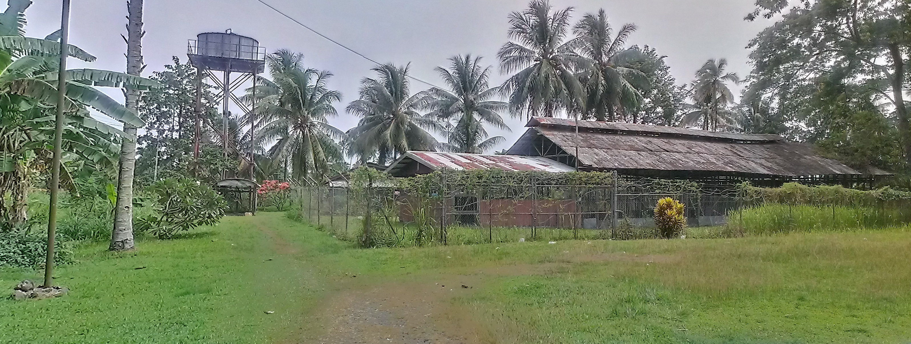 Photo of the old chicken shed at Malahang Mission Station, Lae, Morobe Province. Photo taken 30 January 2014